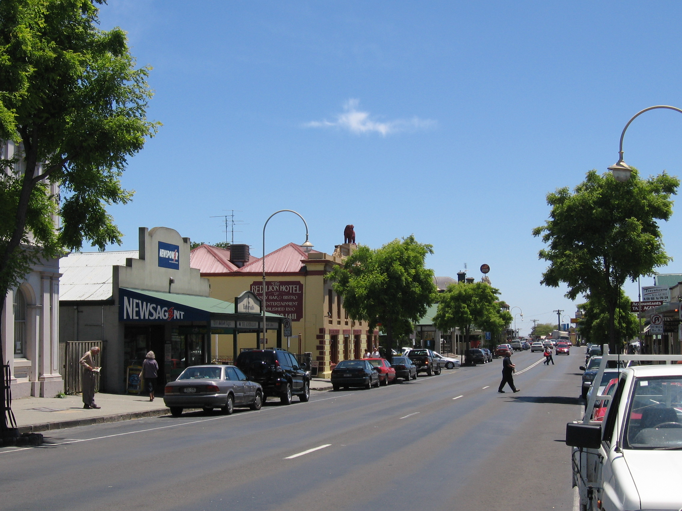 Streetscape, Kilmore, Victoria.